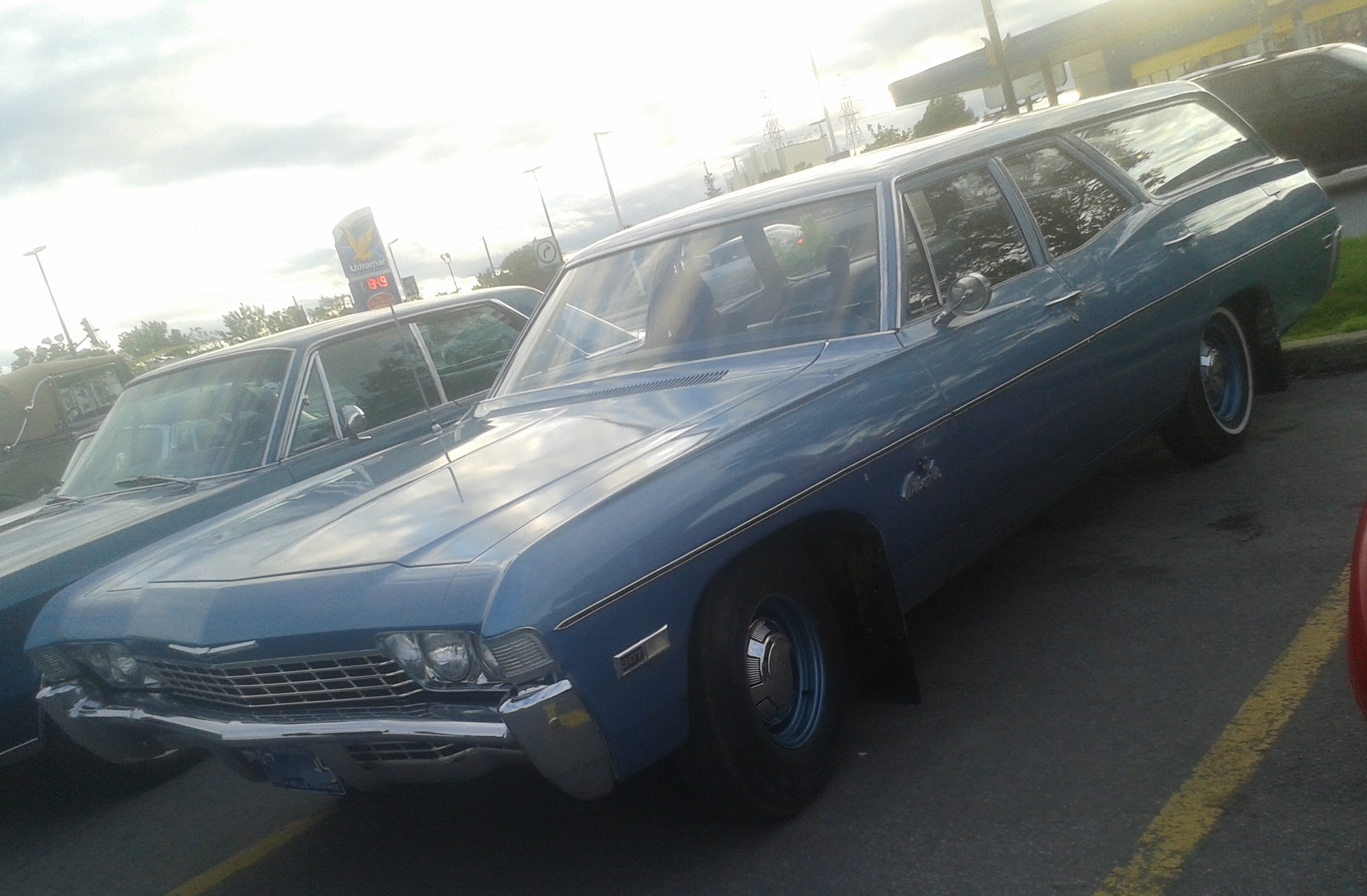 1968 Chevrolet Bel Air photographed in Montreal, Quebec, Canada at the Auto classique 2015 VACM.